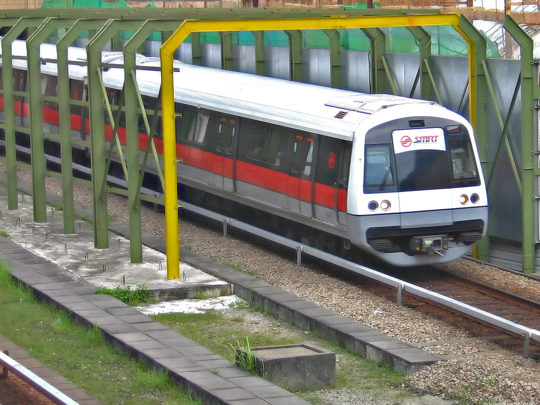 A Kawasaki Heavy Industries & Nippon Sharyo C751B train on the Singapore Mass Rapid Transit. Image by Calvin Teo, June 2006.